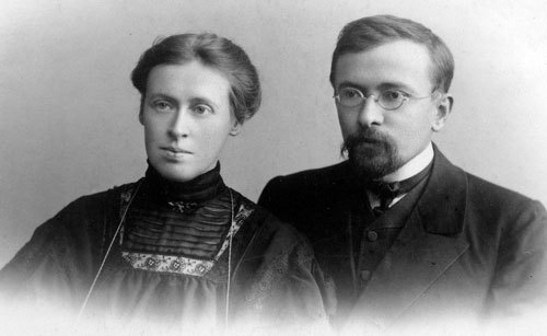 Ruf Yakovlevich Smirnov, Russian doctor, a member of the second Russian State Duma and his first wife Anna Fedorovna nee Grunke after their weeding